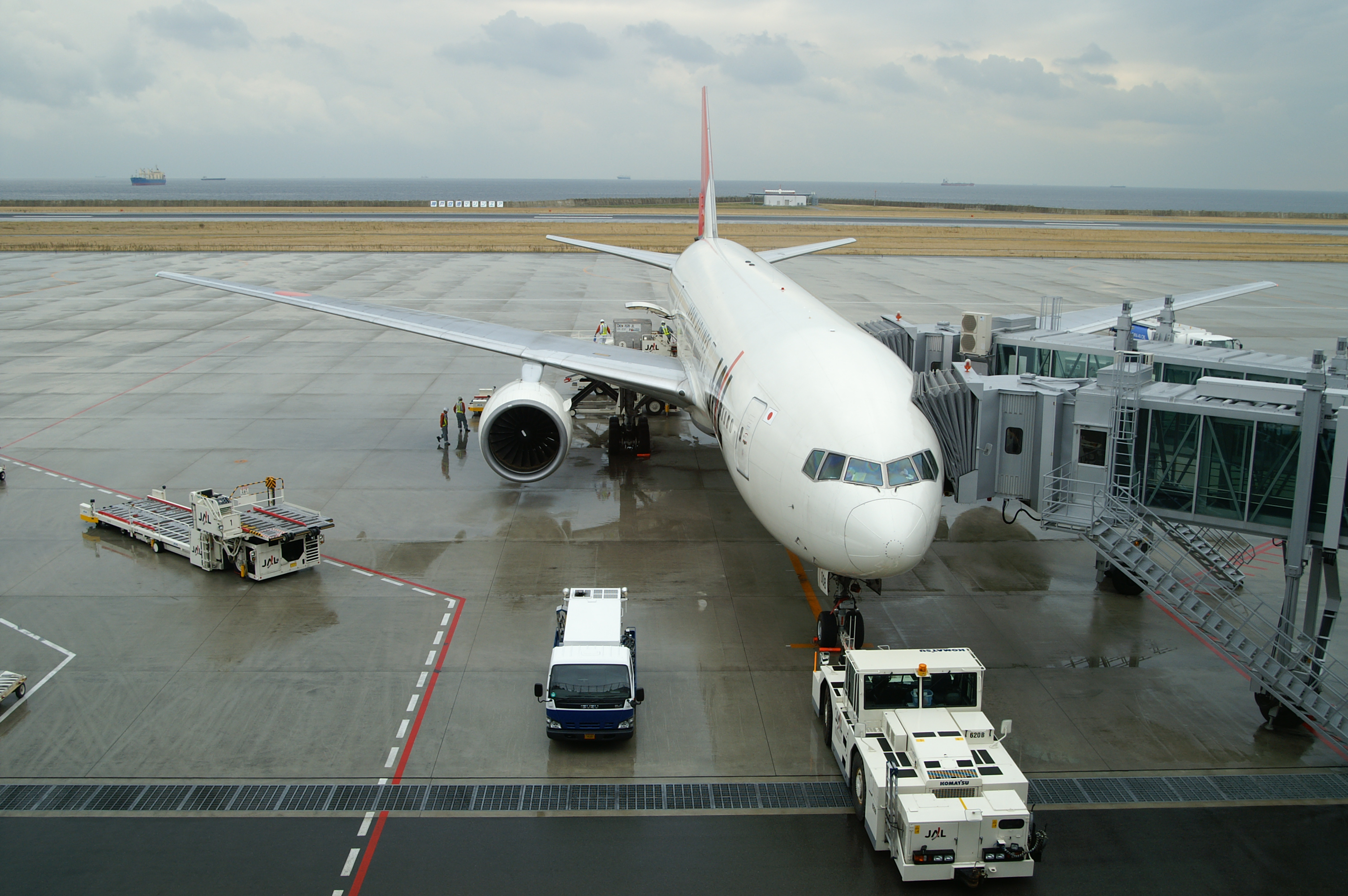 Kobe Airport in Kobe, Japan. JAL B777-289 (JA008D)